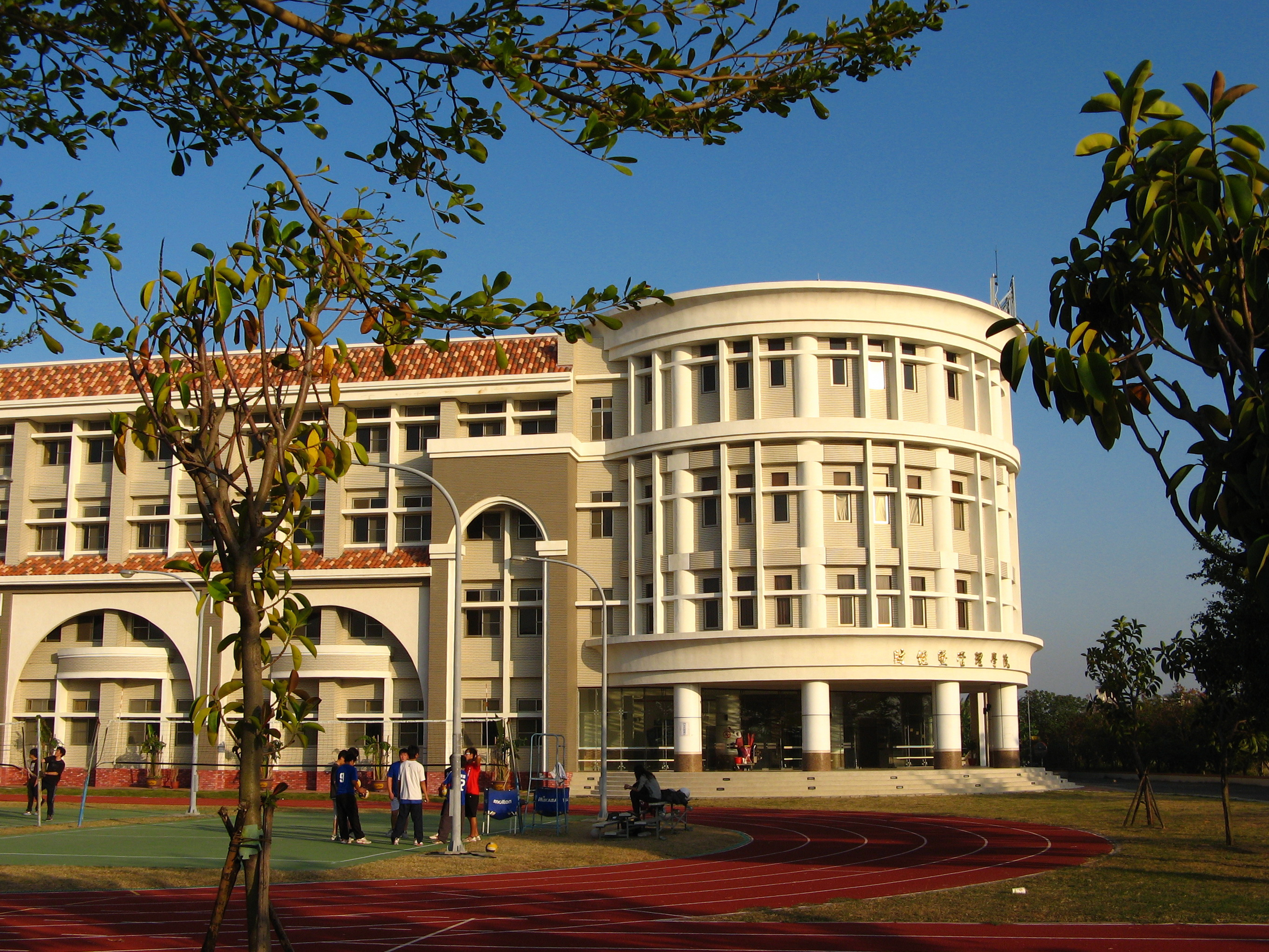 Sports ground and of the Toko University, Chiayi, Taiwan.